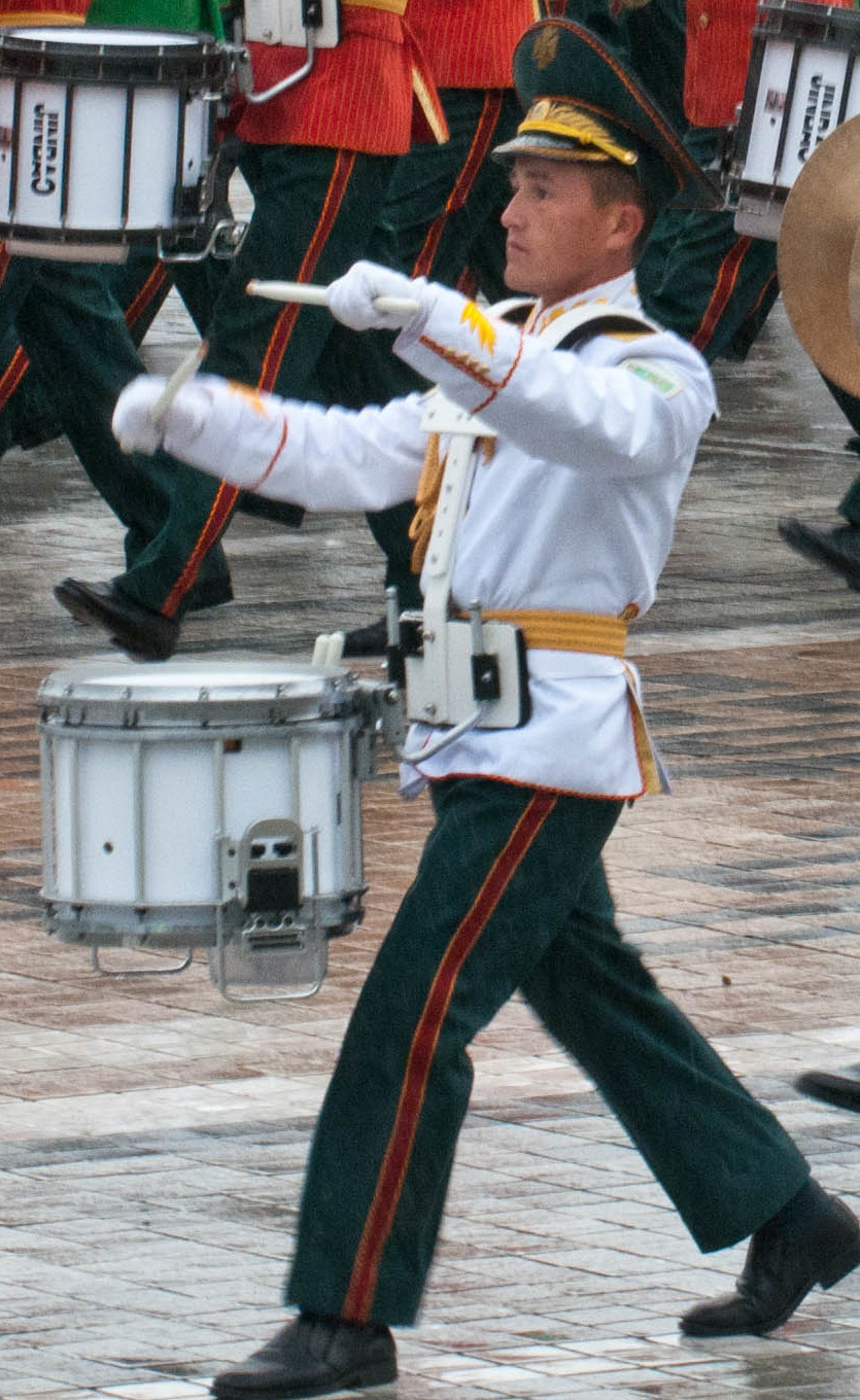 Celebrating the 20th year of independence in Turkmenistan